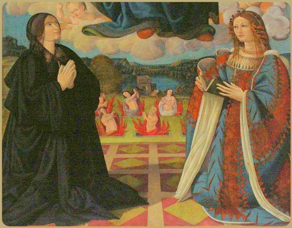 portrait of a woman (Vittoria Colonna). Madonna of Charity, anonymous Neapolitan artist, Sant'Antonio di Padova, Ischia (on one side this idealized portrait of Colonna, and on the other an idealized portrait of Costanza d'Avalos, as donors)